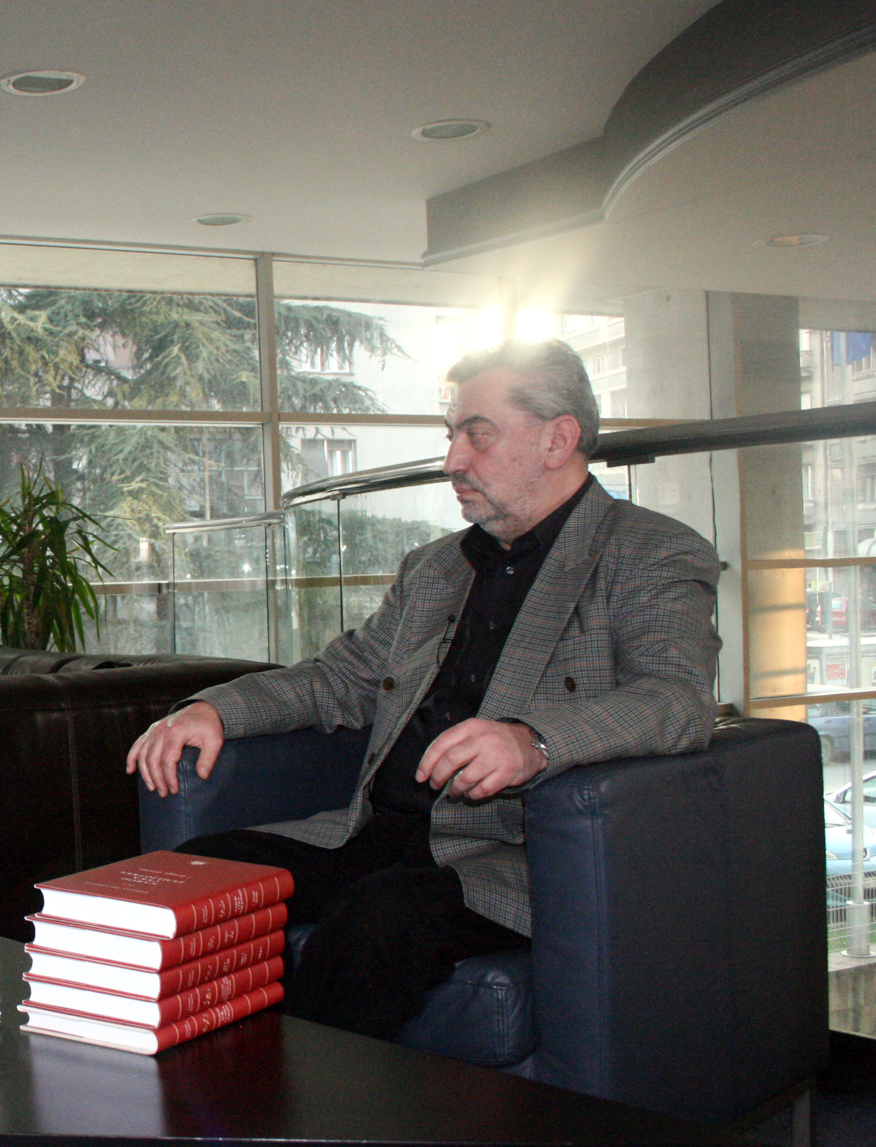 Photo of Vidosav Stevanović